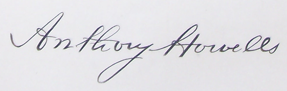 Ohio politician Anthony Howells , Ohio State Treasurer.